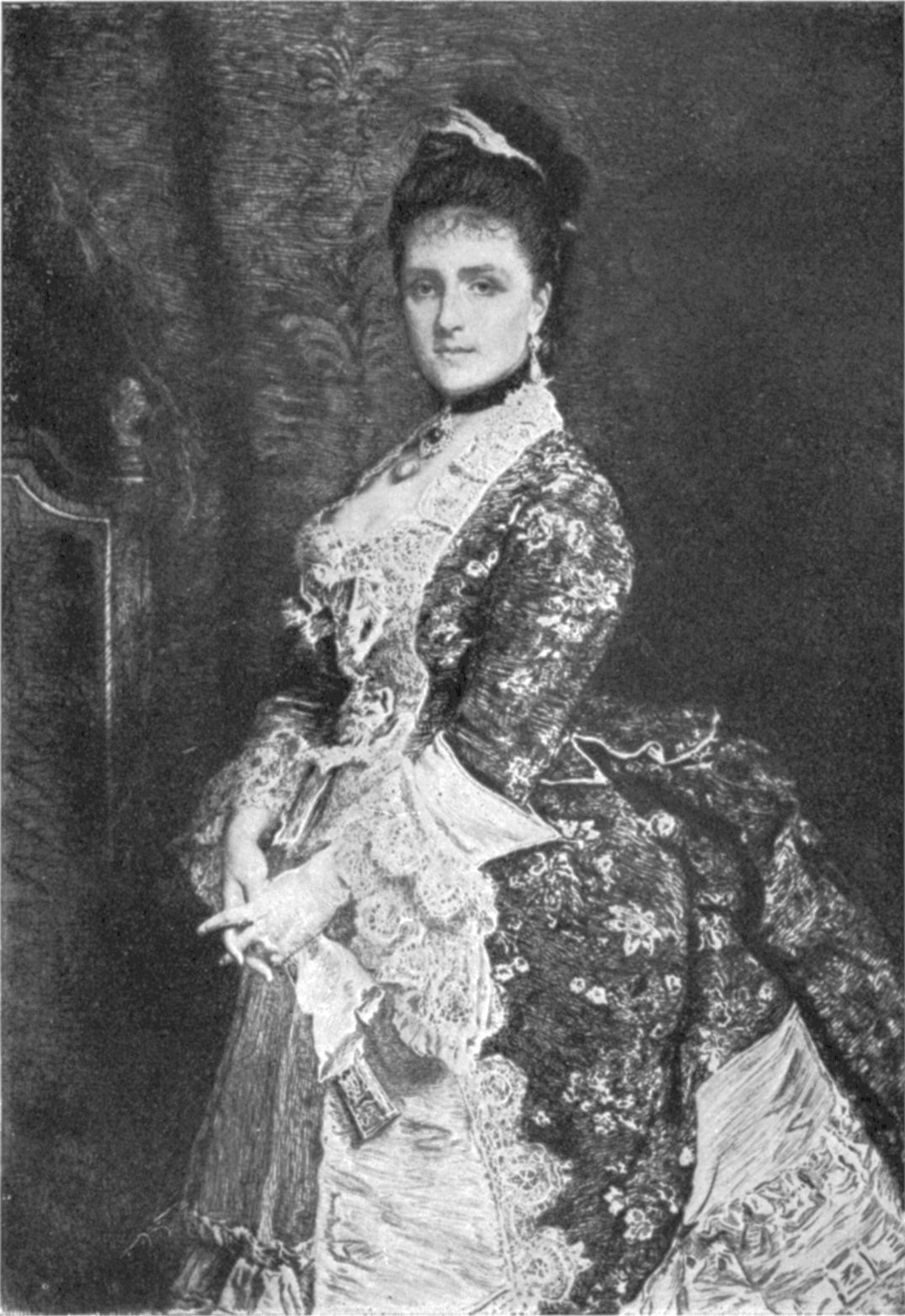 Portrait of Mme Bischoffsheim